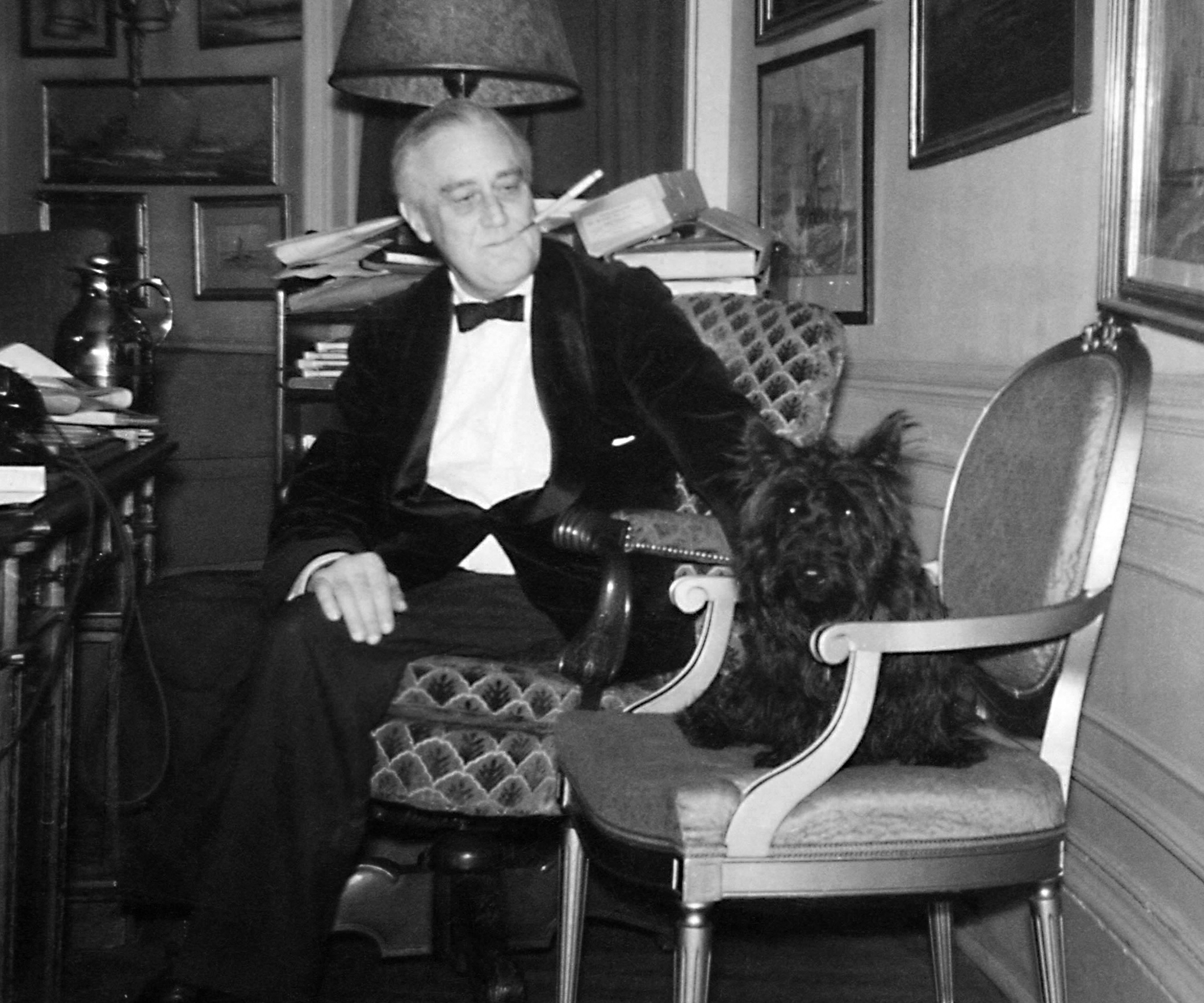 Photograph of President Franklin D. Roosevelt and his dog Fala in the White House Study, Washington, D.C.